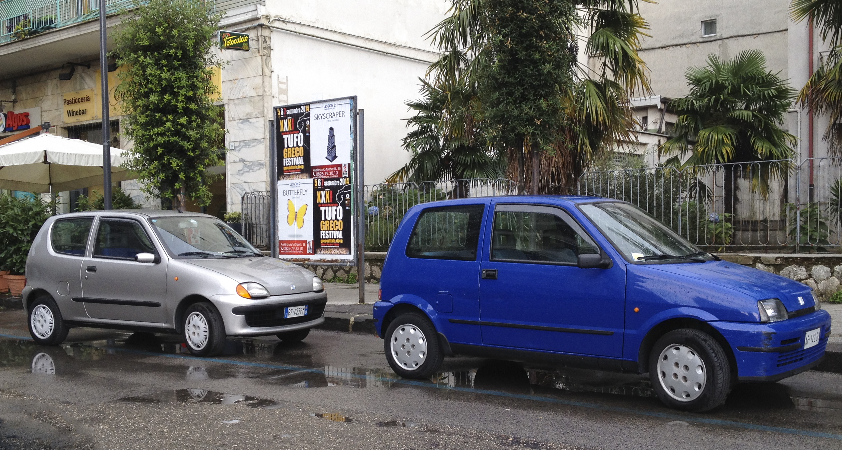 Fiat Seicento and Cinquecento